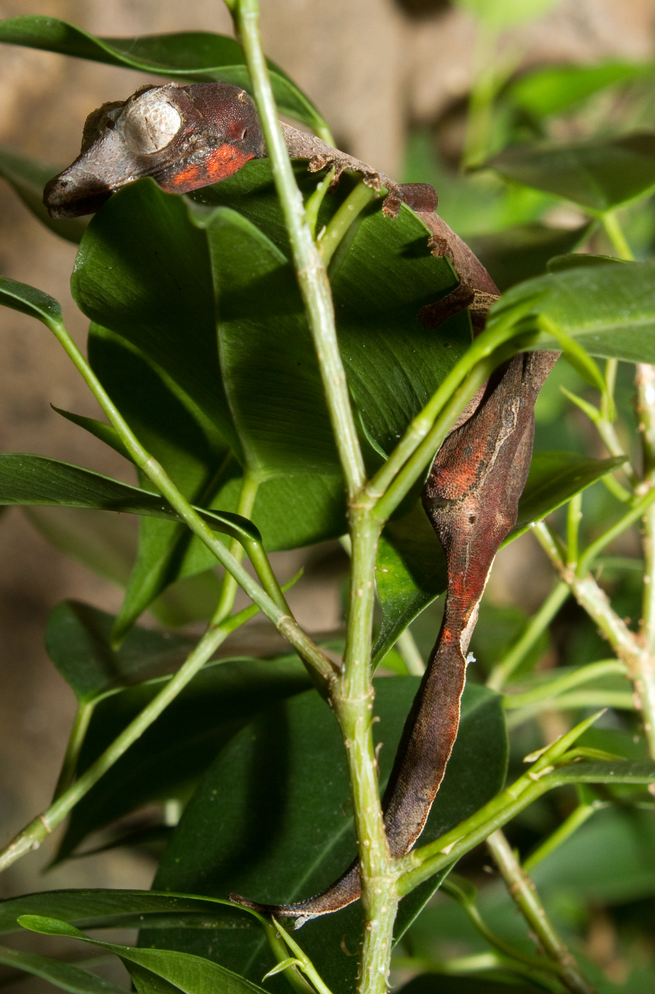 Uroplatus phantasticus